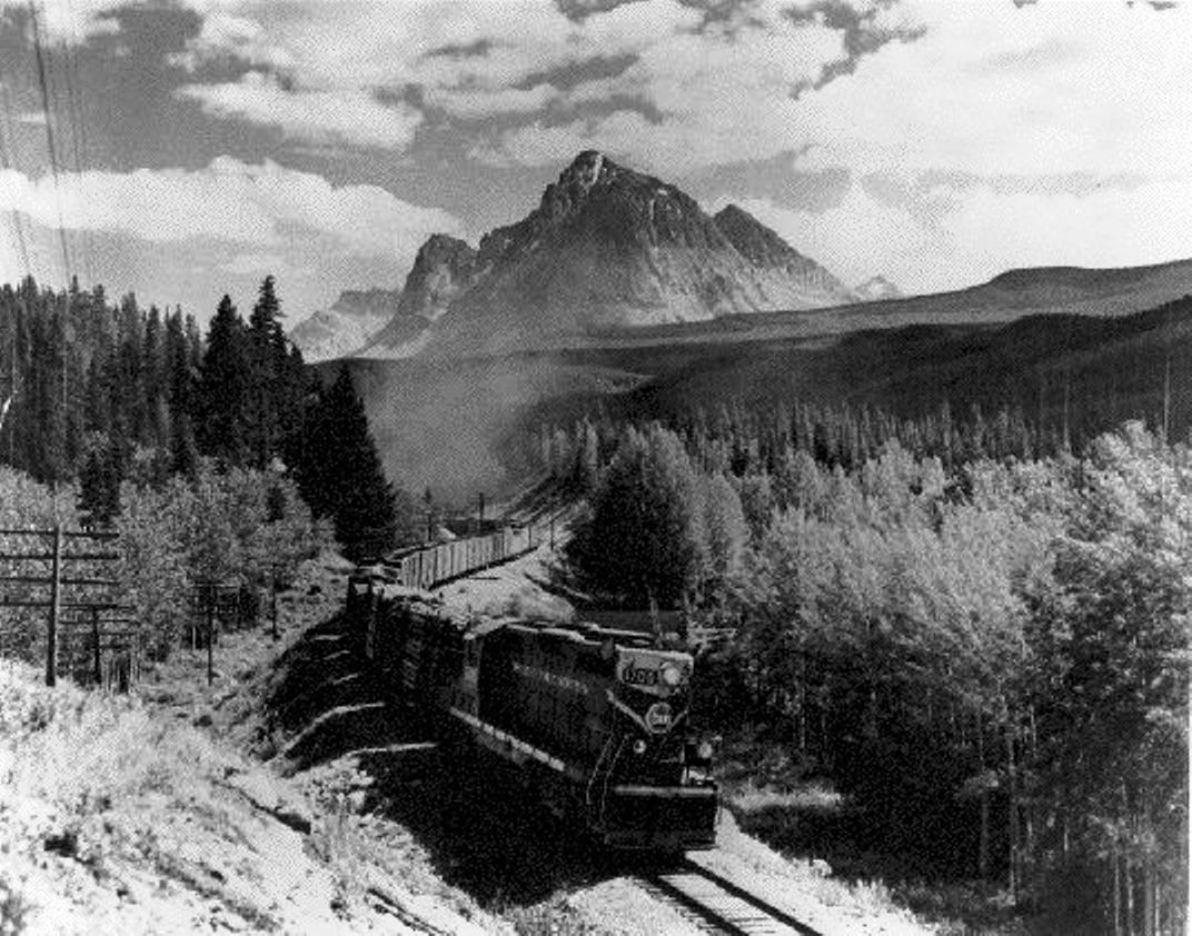 Canadian National Railways GP9 near Yellowhead Pass (ca. 1954+). British Columbia, Canada.